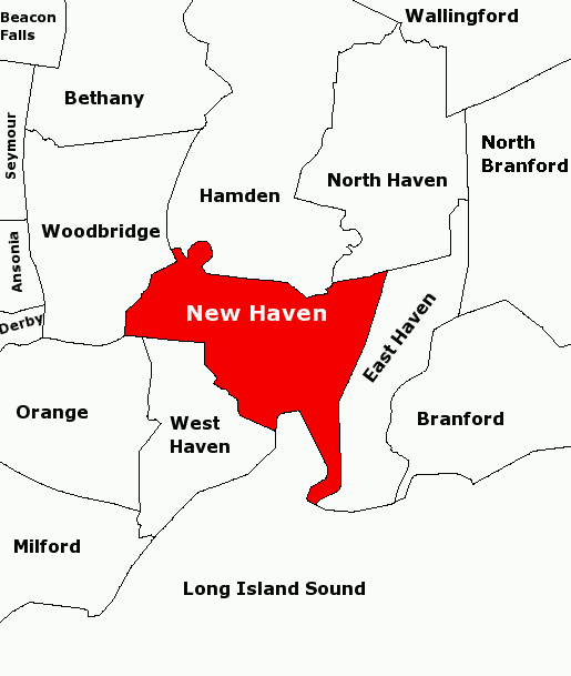 Subject: Map of townships in the New Haven Area. 21-Aug-2007 version fixes town name in upper left: Beacon Falls. Derived from sub-county SVG map of Connecticut at Libre Map Project using Adobe SVG viewer and Gimp 2.2.1.3